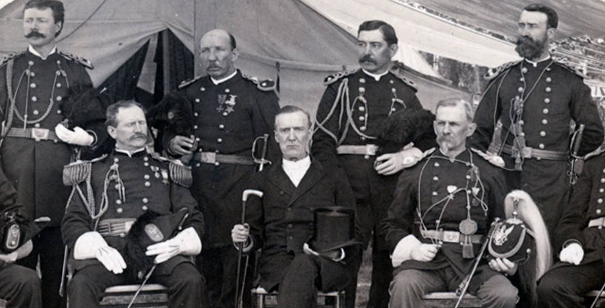 Camp Murray (summer encampment), near Tacoma in 1892. From left to right: E.S. Smith, Seattle; L.F. Boyd, Spokane; R.S. O'Brien, Olympia; Will L. Vischer, Tacoma; E.P. Ferry, Olympia; L.M. Atkins, Fairhaven; F.E. Trotten, Vancouver Barracks; Albert Whyte, Tacoma; Henry Sandes, Port Townsend; H.F. Garretson, Tacoma. Colonel Frederick E. Trotter died several days after this picture was taken. Ferry and Col. Landes died within a year.